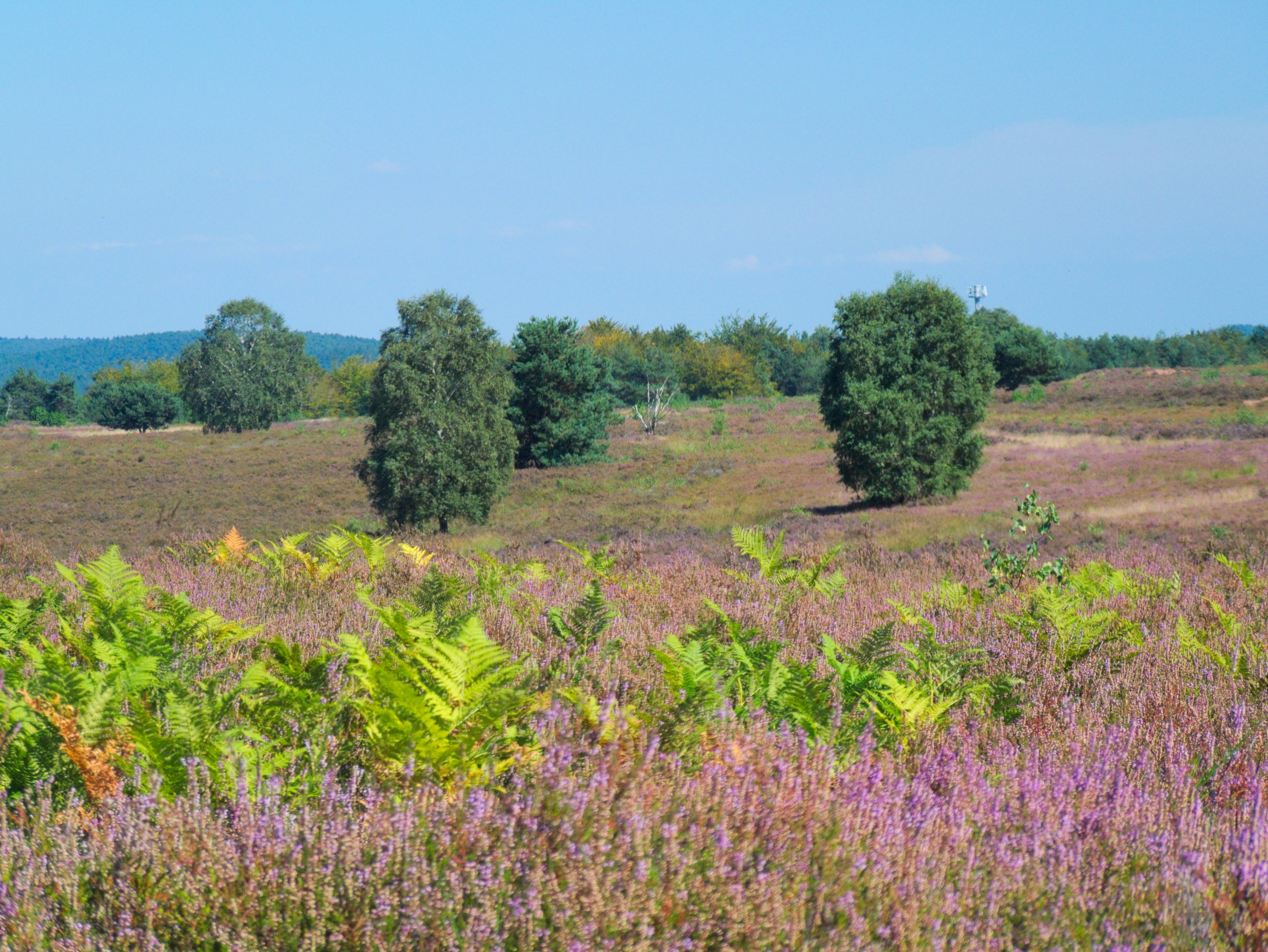 Flowering season in the Mehlinger Heath, Germany.